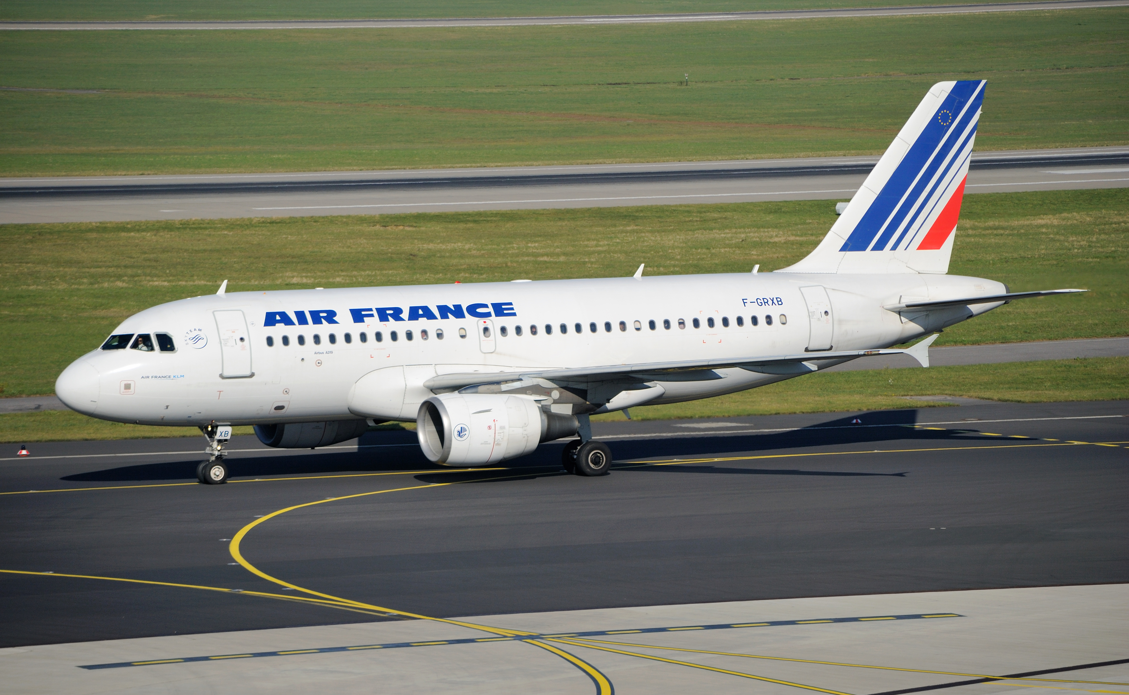 Airbus A319-111 of Air France at Düsseldorf International Airport (North Rhine-Westphalia, Germany) This photograph was taken with a Nikon D3000